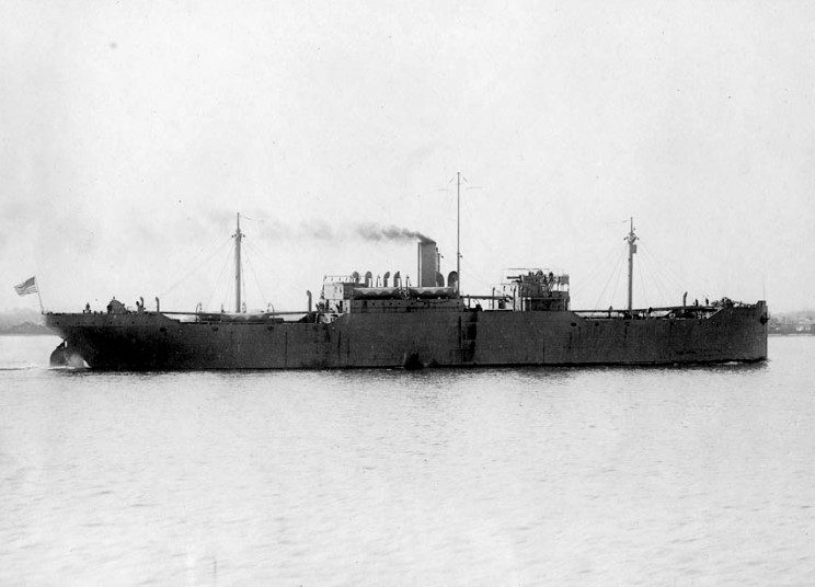 Photo of USS Mary Luckenbach originally named USS Sac City.